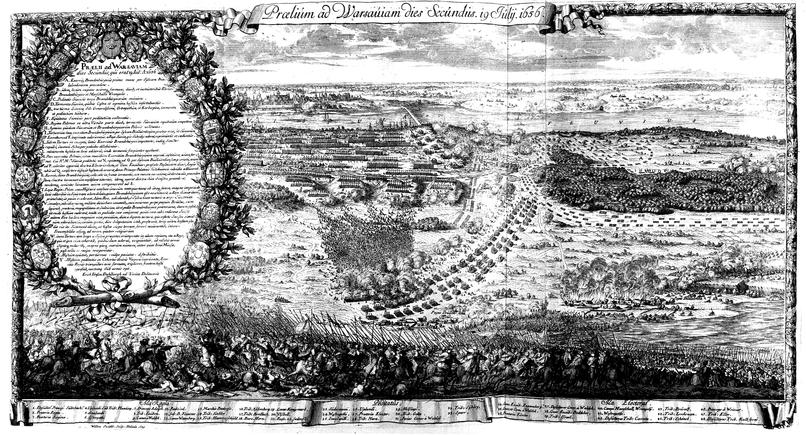 Battle of Warsaw 1656 second day